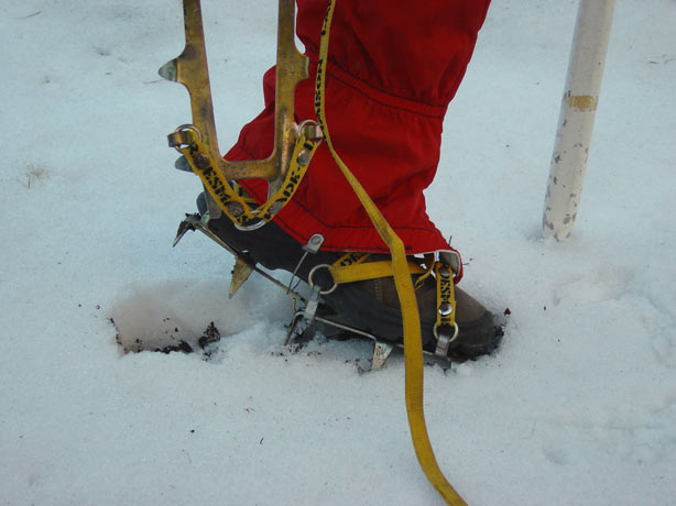 Crampon for flexible boot with straps